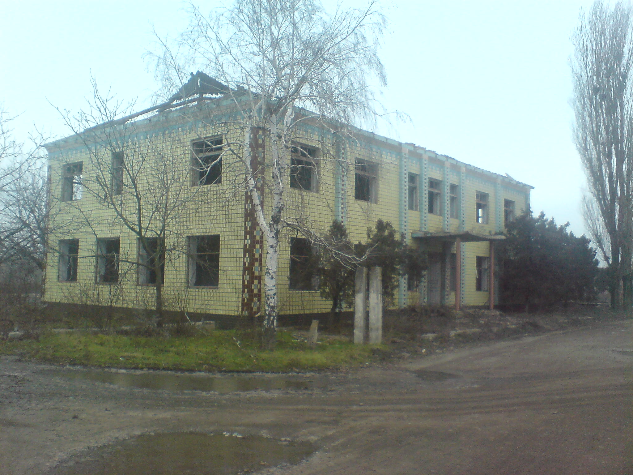 BD-9 "Poltavanaftobud